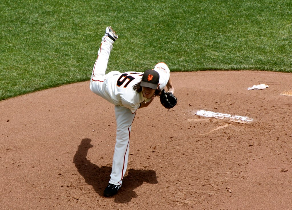 Tim Lincecum throwing a pitch against the Los Angeles Angels of Anaheim